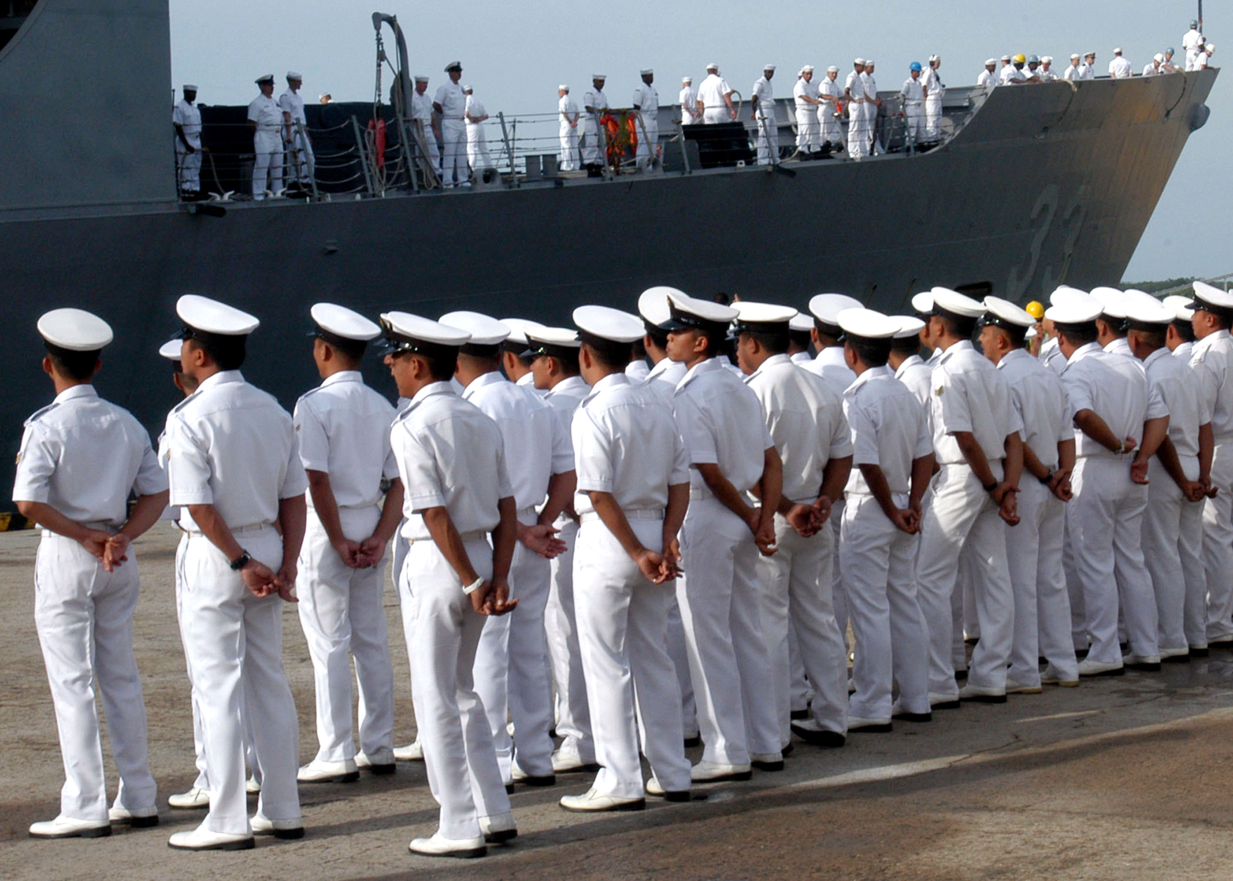 MUARA, BRUNEI (Aug. 3, 2007) - Royal Brunei Navy personnel stand at parade rest as the guided-missile frigate USS Jarrett (FFG 33) pulls into Muara, Brunei as part of Cooperation Afloat Readiness and Training (CARAT) 2007. CARAT is an annual series of bilateral maritime training exercises between the United States and six Southeast Asia nations designed to build relationships and enhance the operational readiness of the participating forces. U.S. Navy photo by Mass Communication Specialist 1st Class Scott Comstock (RELEASED)